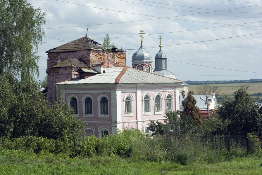 Bolhov (Orel Region, Russia). Christmas abbey.